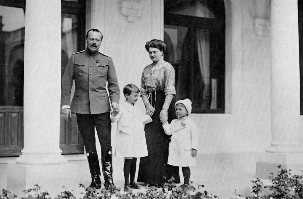 Grand Duke Ernest Louis with family in Tsarskoe Selo, April/May 1912